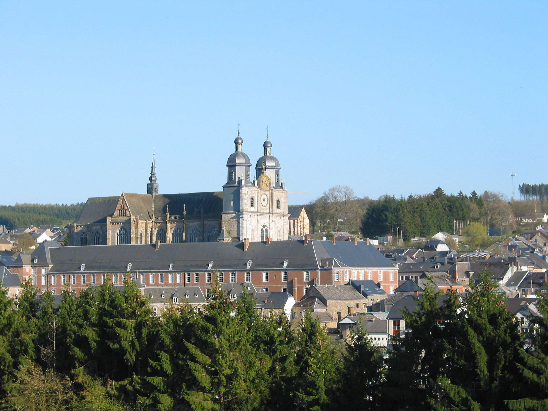 Saint-Hubert, Belgium , the abbey (XVIIIth century) and the Saint Hubert or Sints Peter and Paul abbatial church (XVI-XVIIIth centuries).